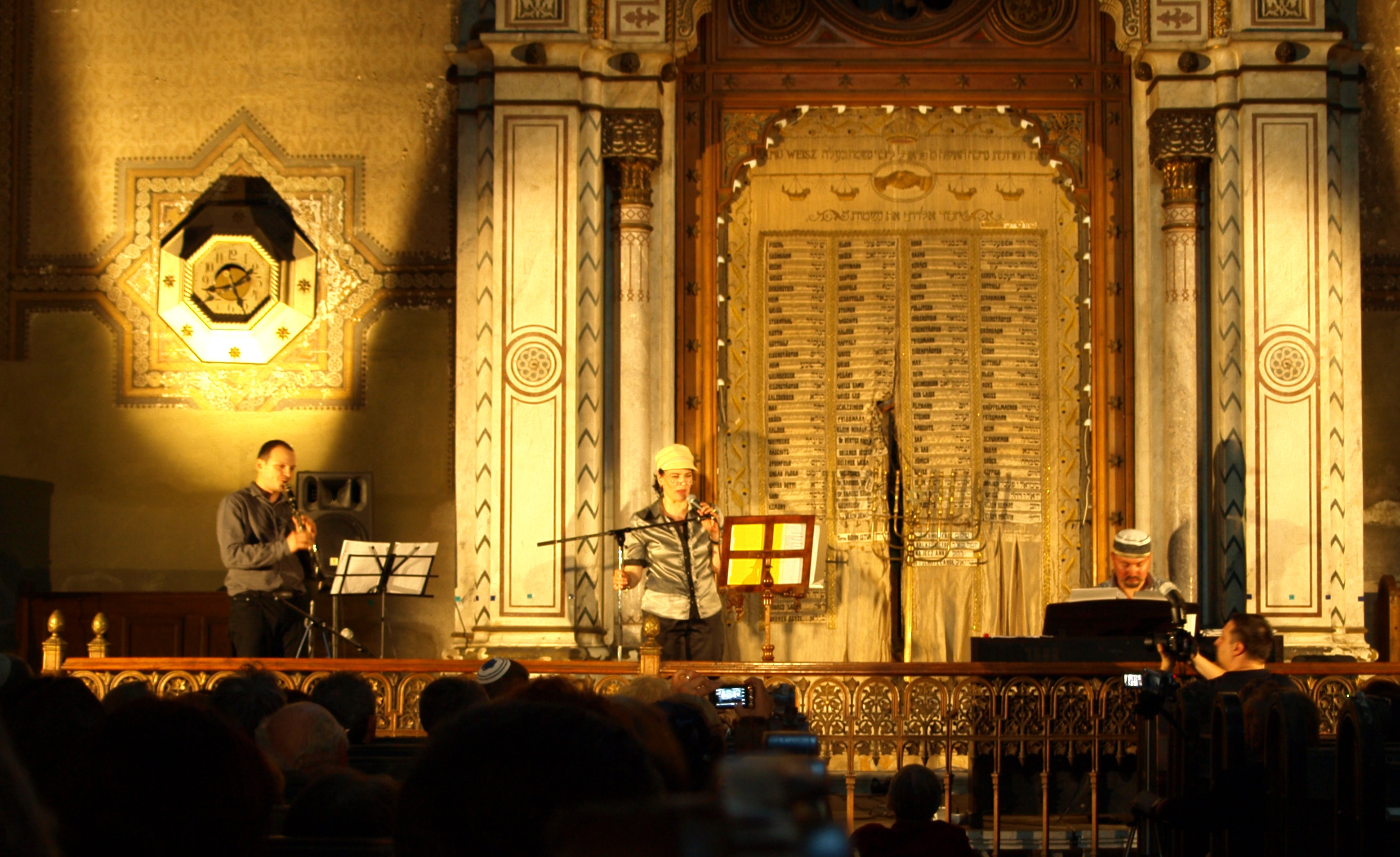 Actress Maia Morgenstern sings Jewish music in Timisoara, Romania, in the old Cetate Sinagogue. Mai 25, 2010.